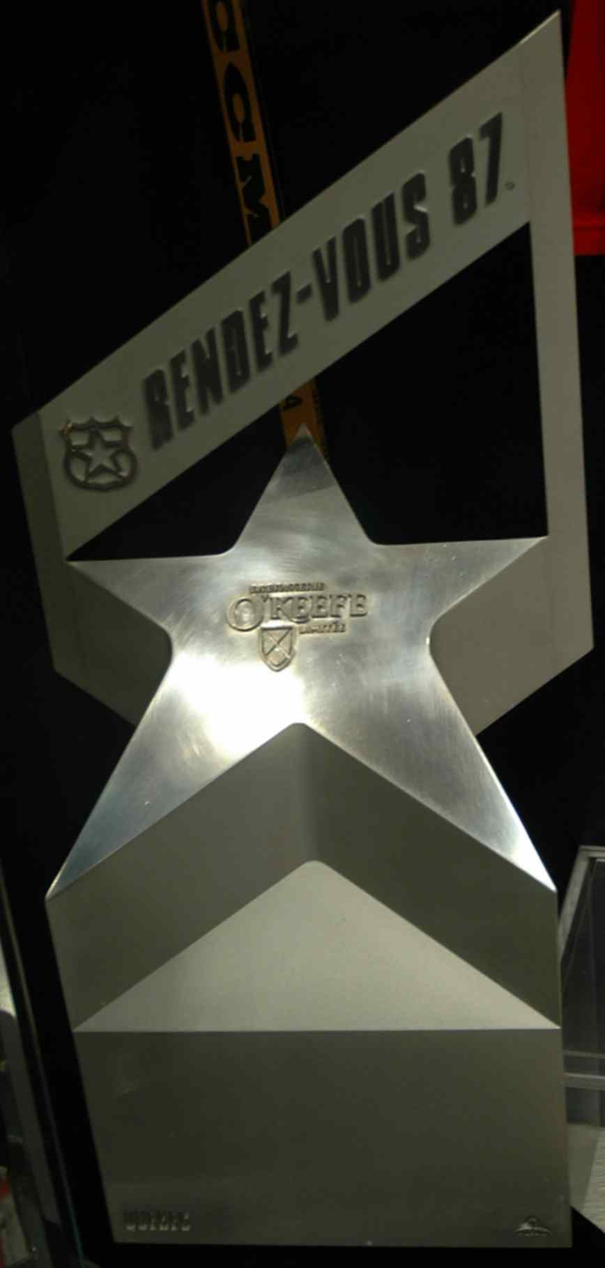 The Rendez-vous 87 cup. Event replaced All-Star Game in 1987